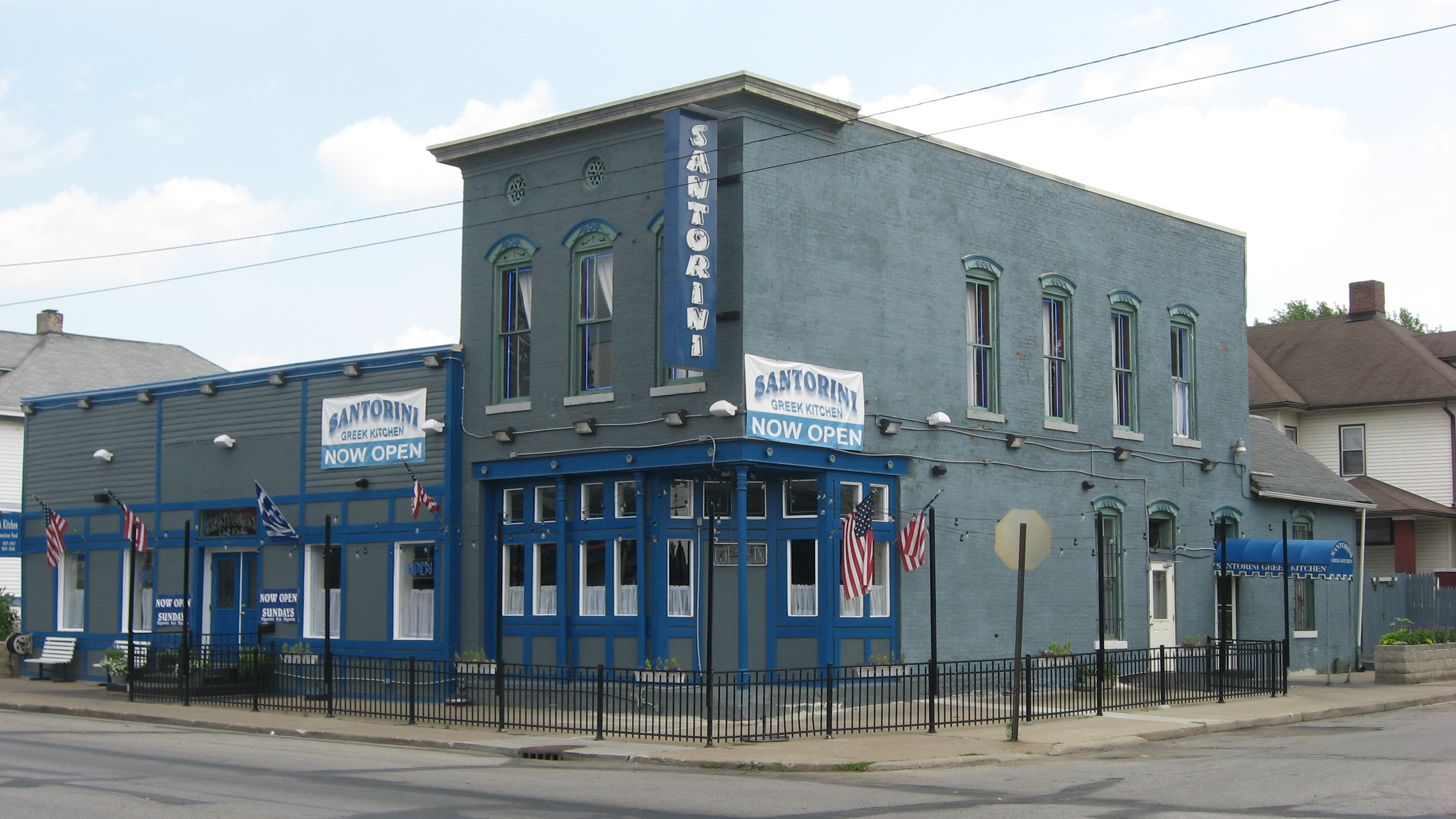 Front and western sides of the buildings at 1413-1419 E. Prospect Street in Indianapolis, Indiana, United States. These buildings are part of the Laurel and Prospect District, a historic district that is listed on the National Register of Historic Places.